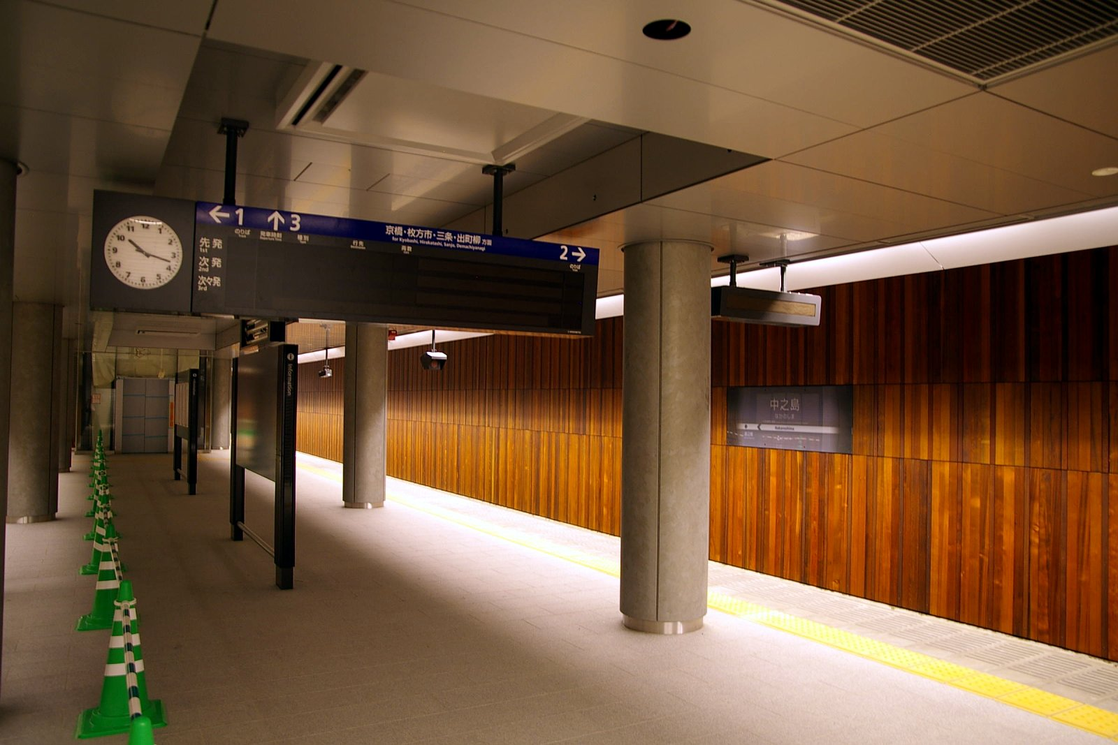 Keihan Nakanoshima Station (under construction), Osaka city, Japan